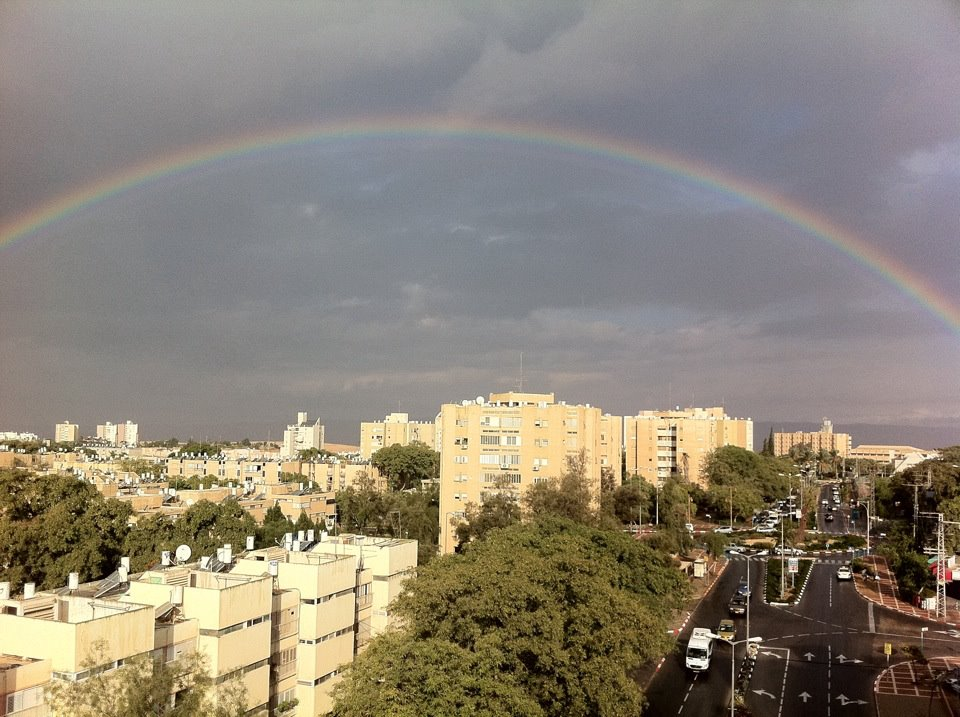 Arad, Geography of Israel